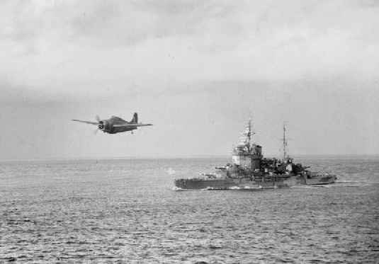 A Royal Navy Fleet Air Arm Grumman Martlet IV of 888 Naval Air Squadron, Fleet Air Arm, approaching the aircraft carier HMS Formidable (67) while circling to land during operations round Madagascar. The force left Colombo on 24 April and put into the Seychelles on 1 May. The Fleet Air Arm carried out extensive searches and patrols over a wide area during the operation. The covering force then put into Mombasa on 10 May after the operation was concluded. HMS Warspite is in the background.